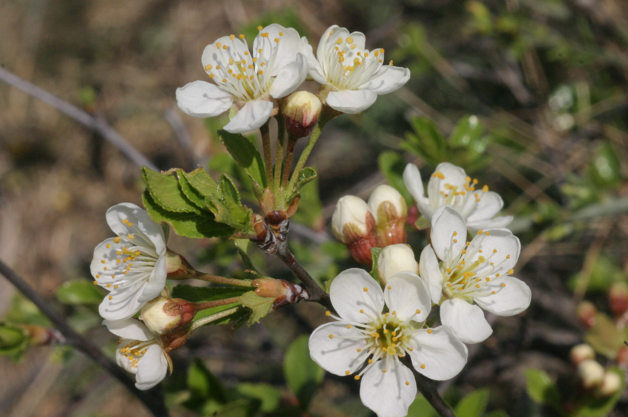 Prunus fruticosa